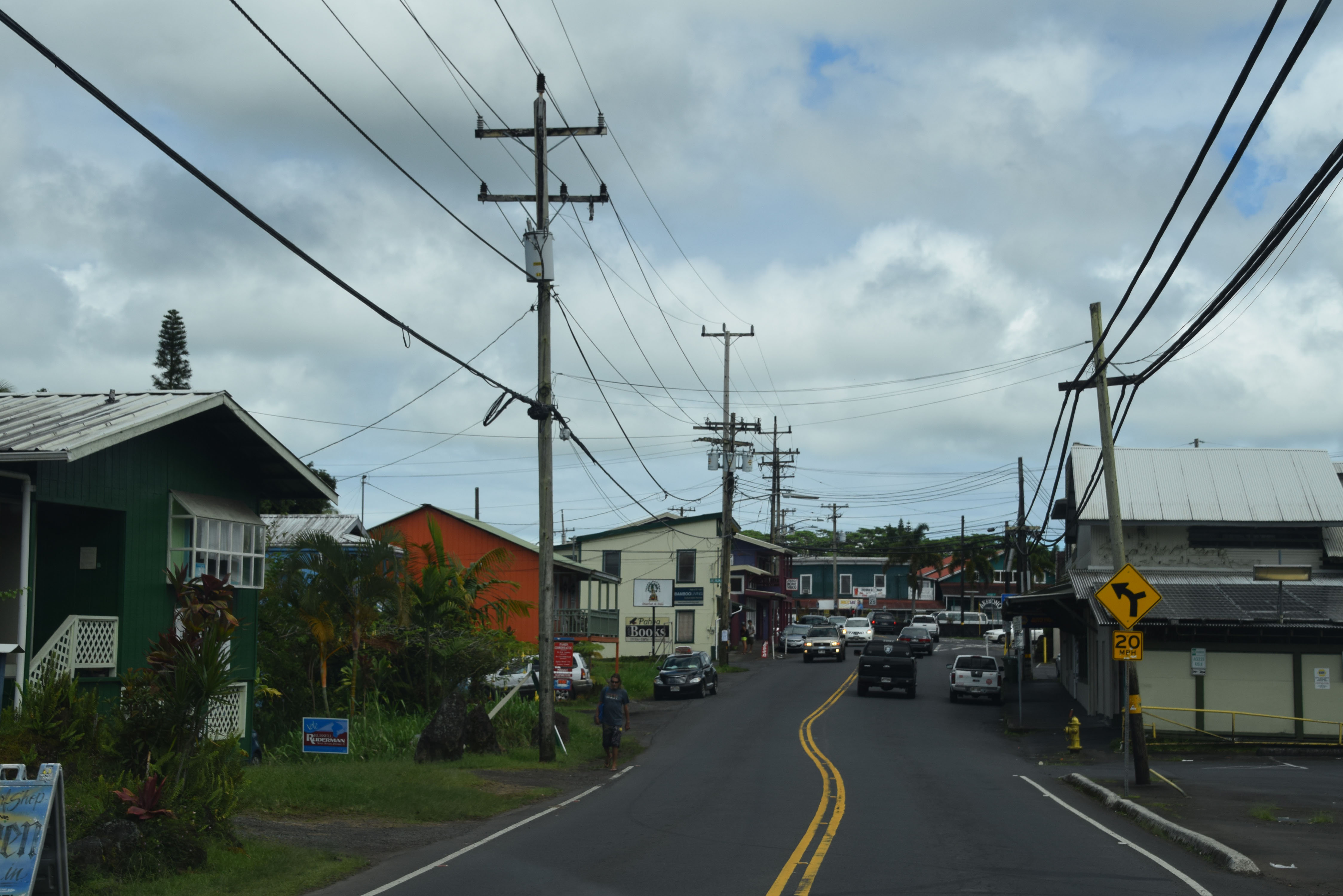 Hawaii Route 130 passes thru the town of Pahoa, Hawaii